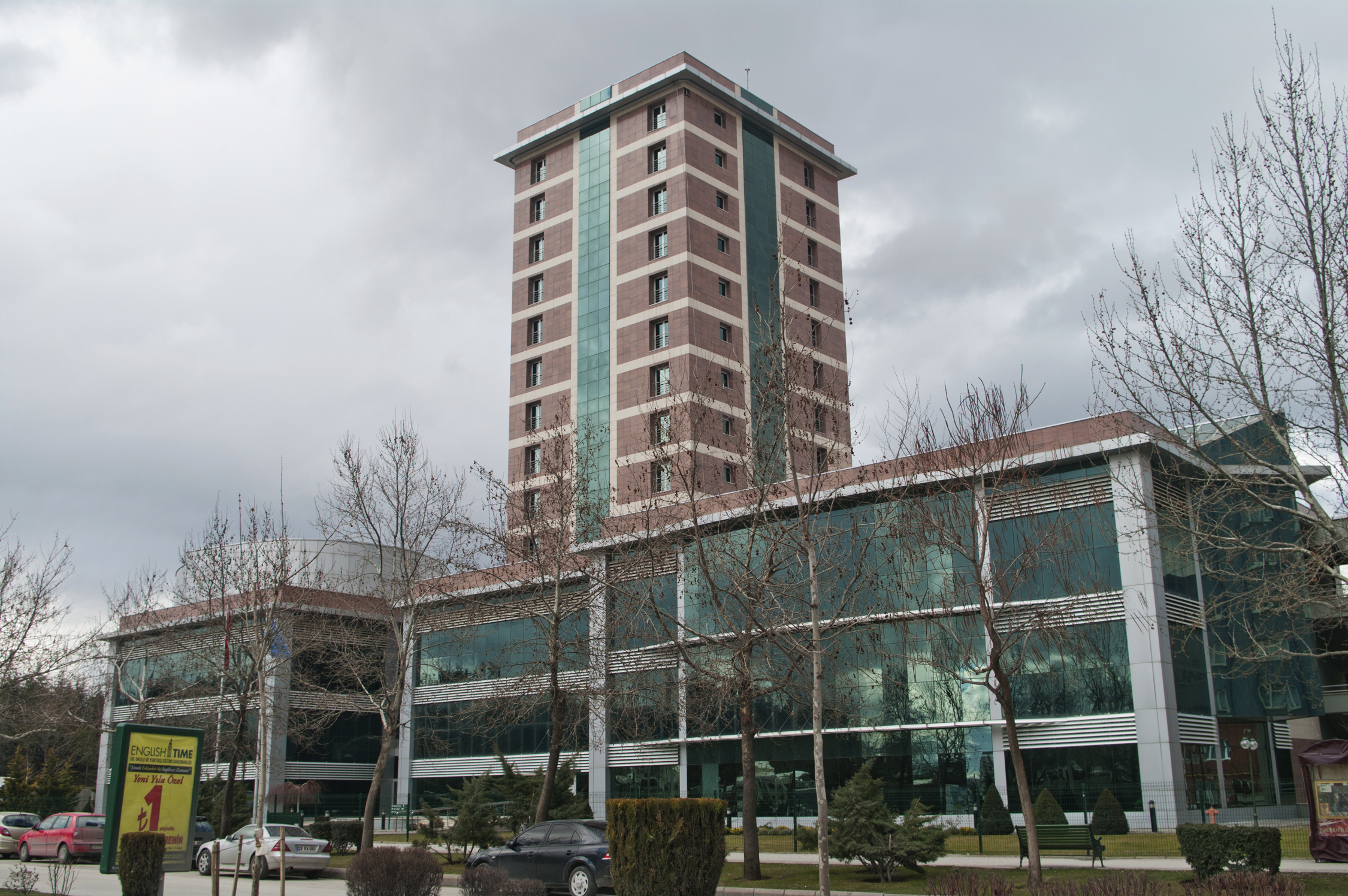 Building of offices of Open Education Faculty, Anadolu University. Eskişehir, Turkey.